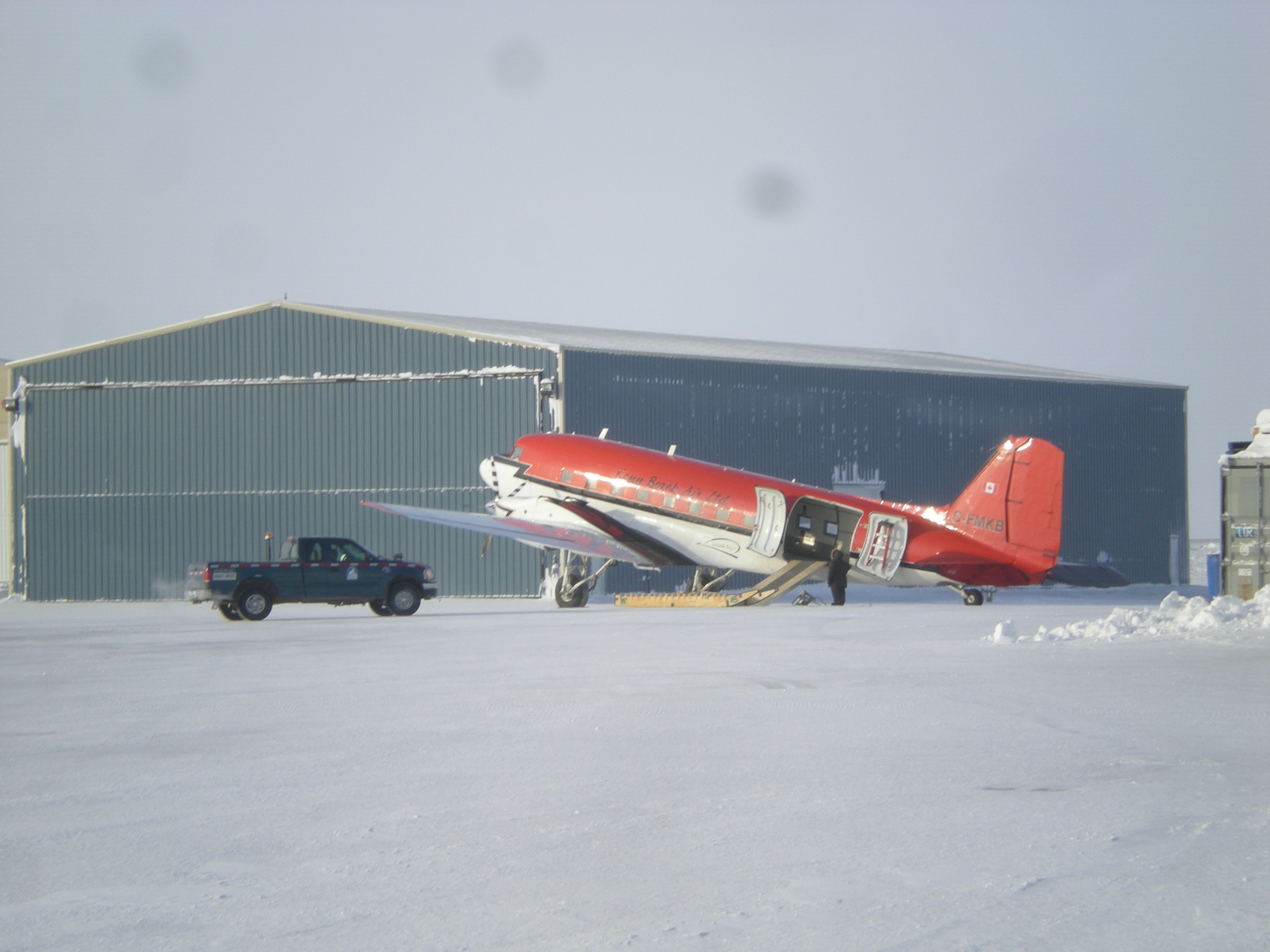 C-FMKB BT67 belonging to Kenn Borek at Cambridge Bay Airport